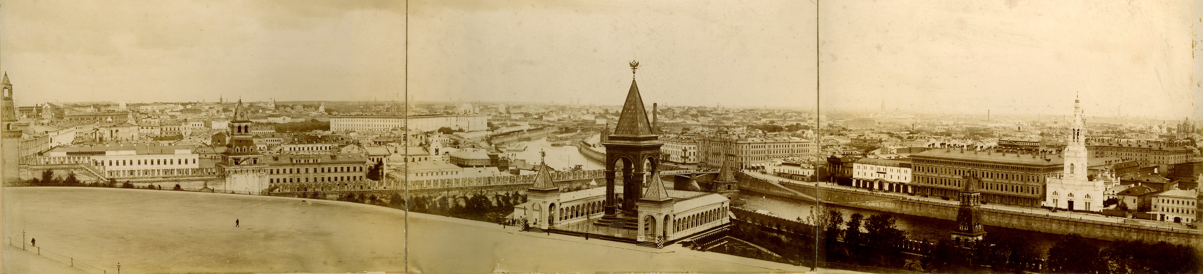 Panorama of Moscow from the Ivan the Great Bell Tower.